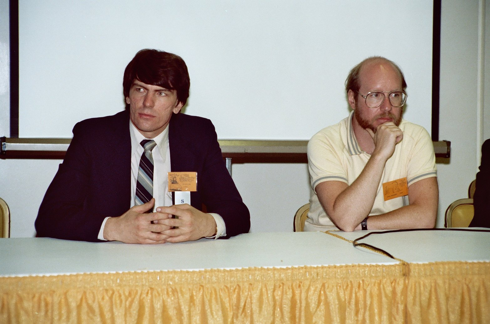 Photo of Jim Shooter and Steve Englehart at the San Diego Comic Convention.